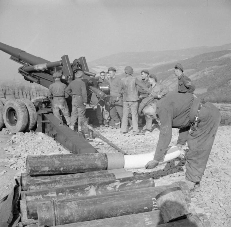 British gun crew of 33/61 Heavy Regiment, Royal Artillery, with an American-built 155mm 'Long Tom' gun at Vergato, Italy. A gunner removes a charge from its protective tube as a shell is loaded into the breech.